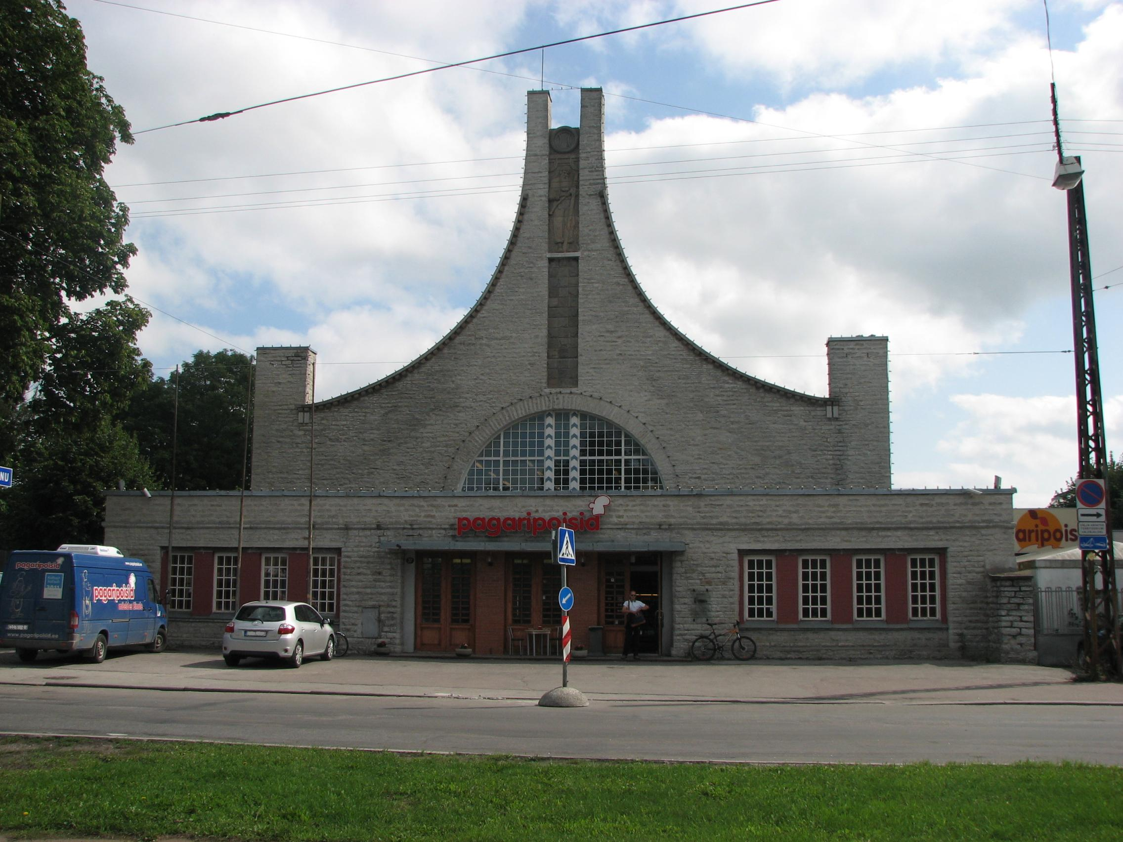 The club building of Luther plywood and furniture factory in Tallinn, Vana-Lõuna 37. Built 1904–1905, architects Gesellius, Lindgren, and Saarinen.